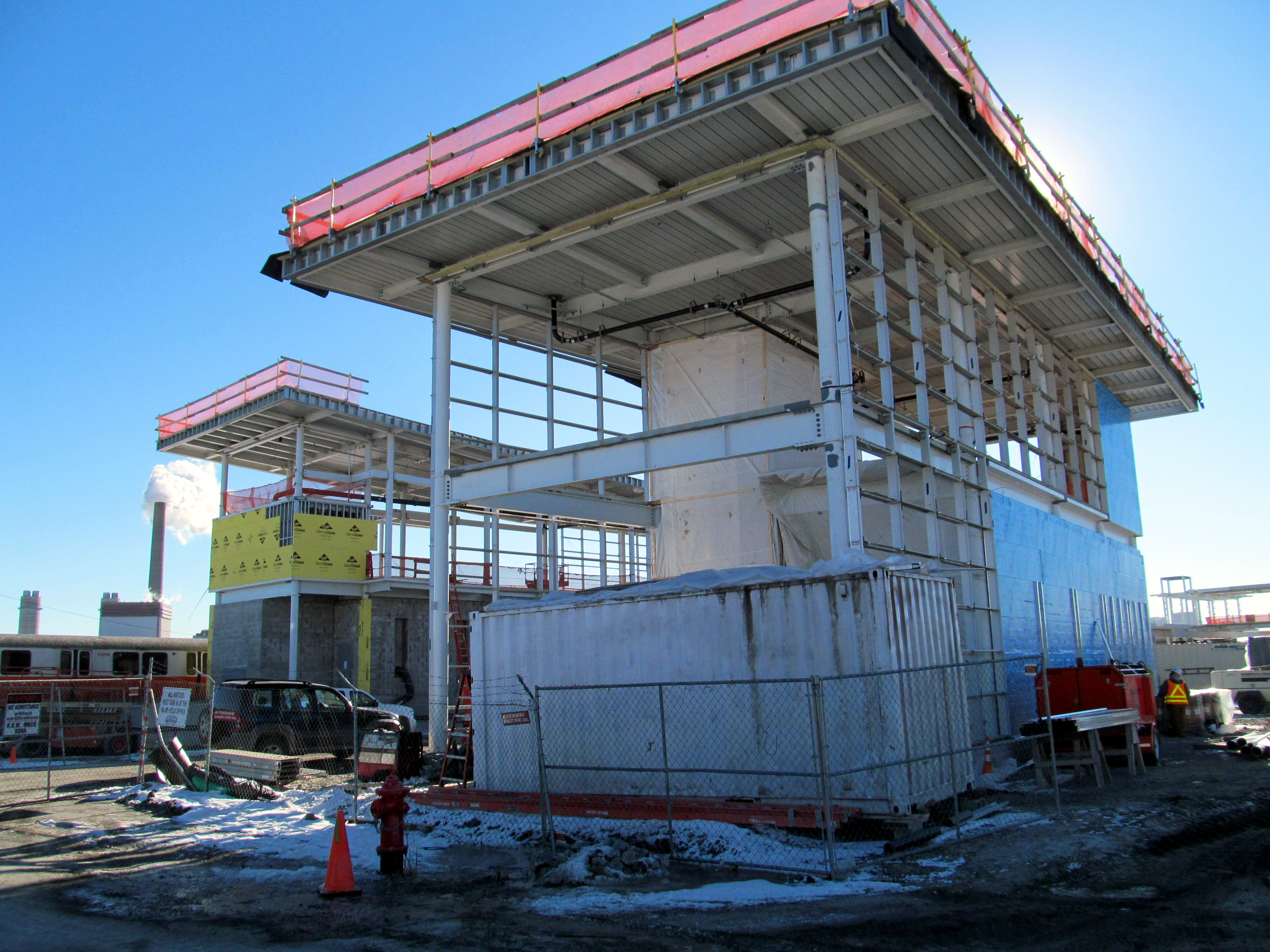 Construction work on the north headhouse of the Assembly Square station in January 2014